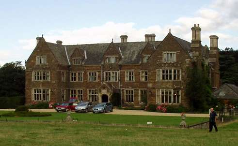 Launde Abbey, near Loddington, Leicestershire